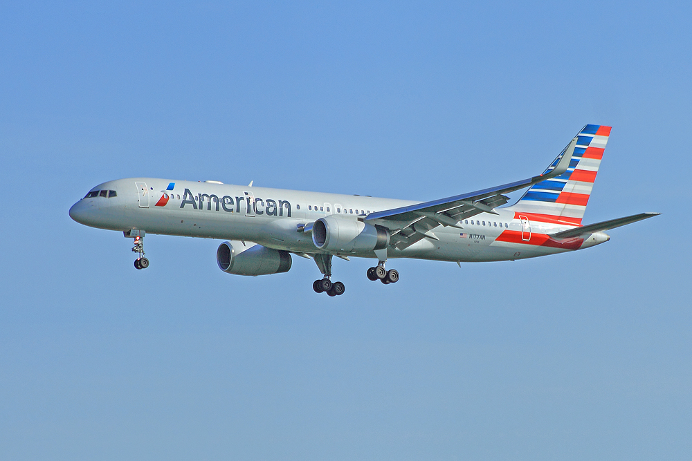 American Airlines Boeing 757-223(WL) - N177AN